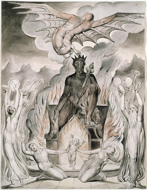 Watercolor Illustration to Milton's On the Morning of Christ's Nativity, by William Blake